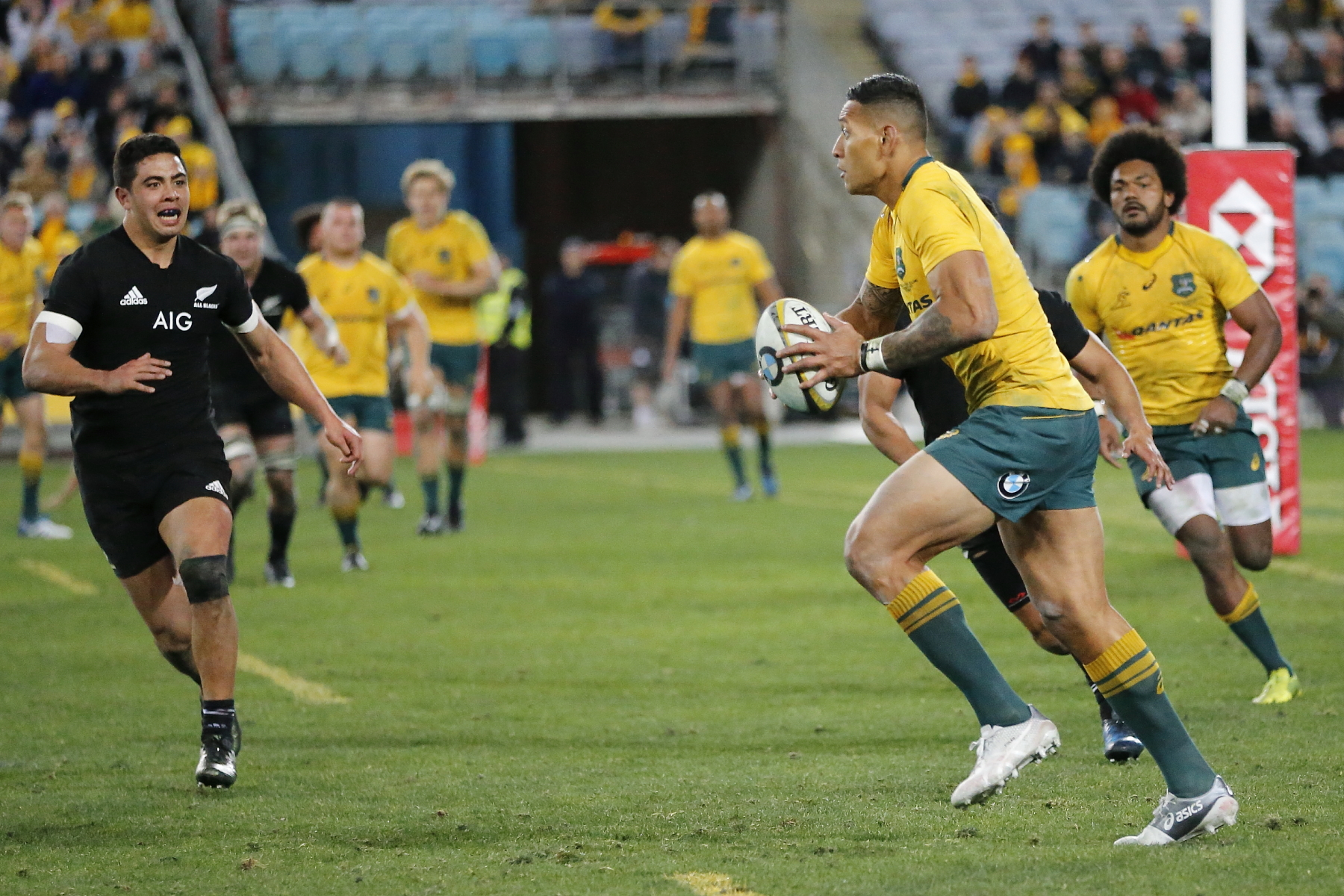 2017.08.19.21.53.38-Israel Folau carry-0003 2017 Rugby Championship, Bledisloe 1, Australia vs New Zealand, 19th August, ANZ Stadium, Sydney